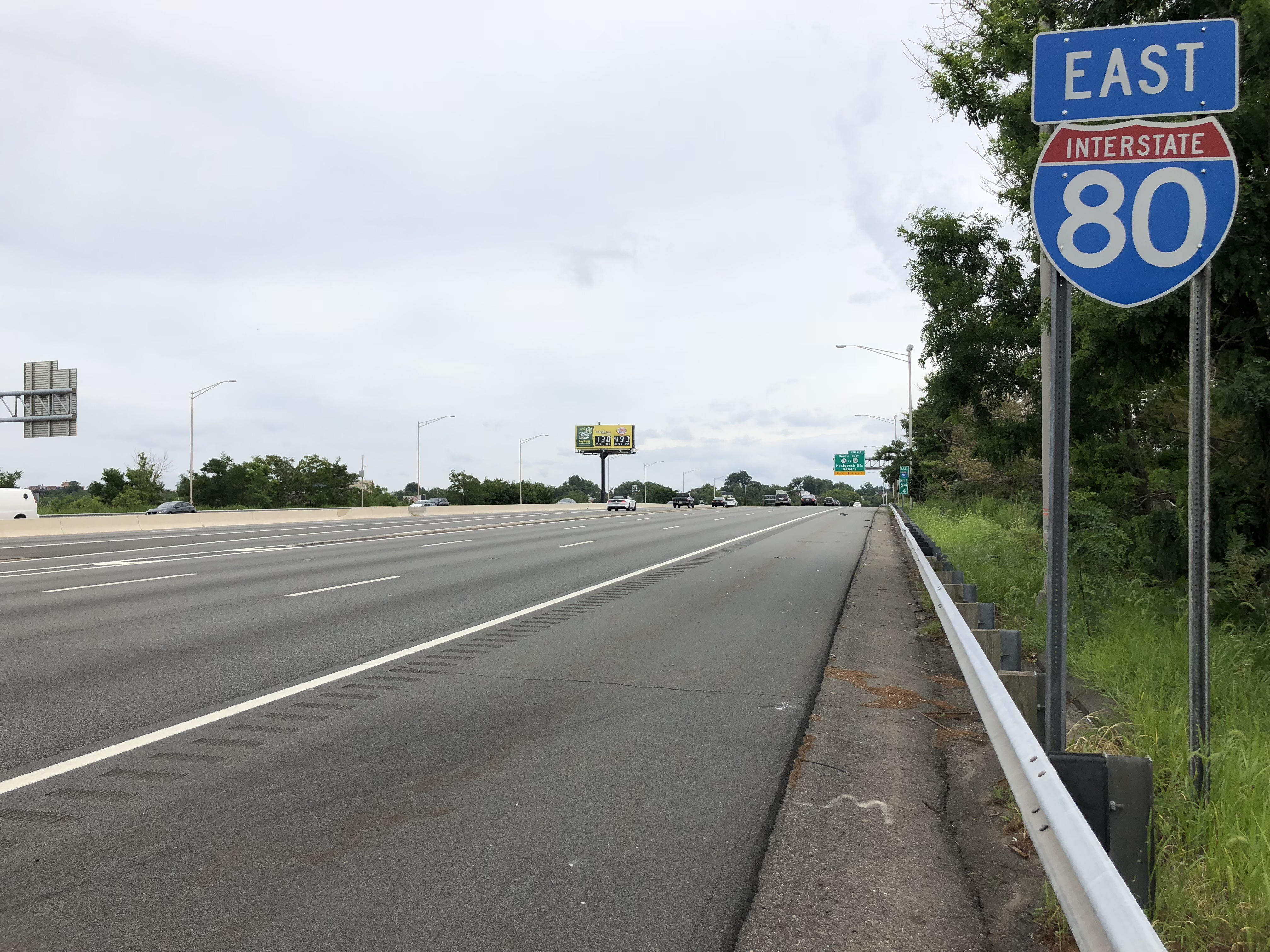 View east along Interstate 80 (Bergen-Passaic Expressway) between Exit 63 and Exit 64 in Lodi, Bergen County, New Jersey